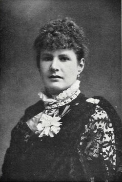 Anna Bonus Kingsford (1846-1888)